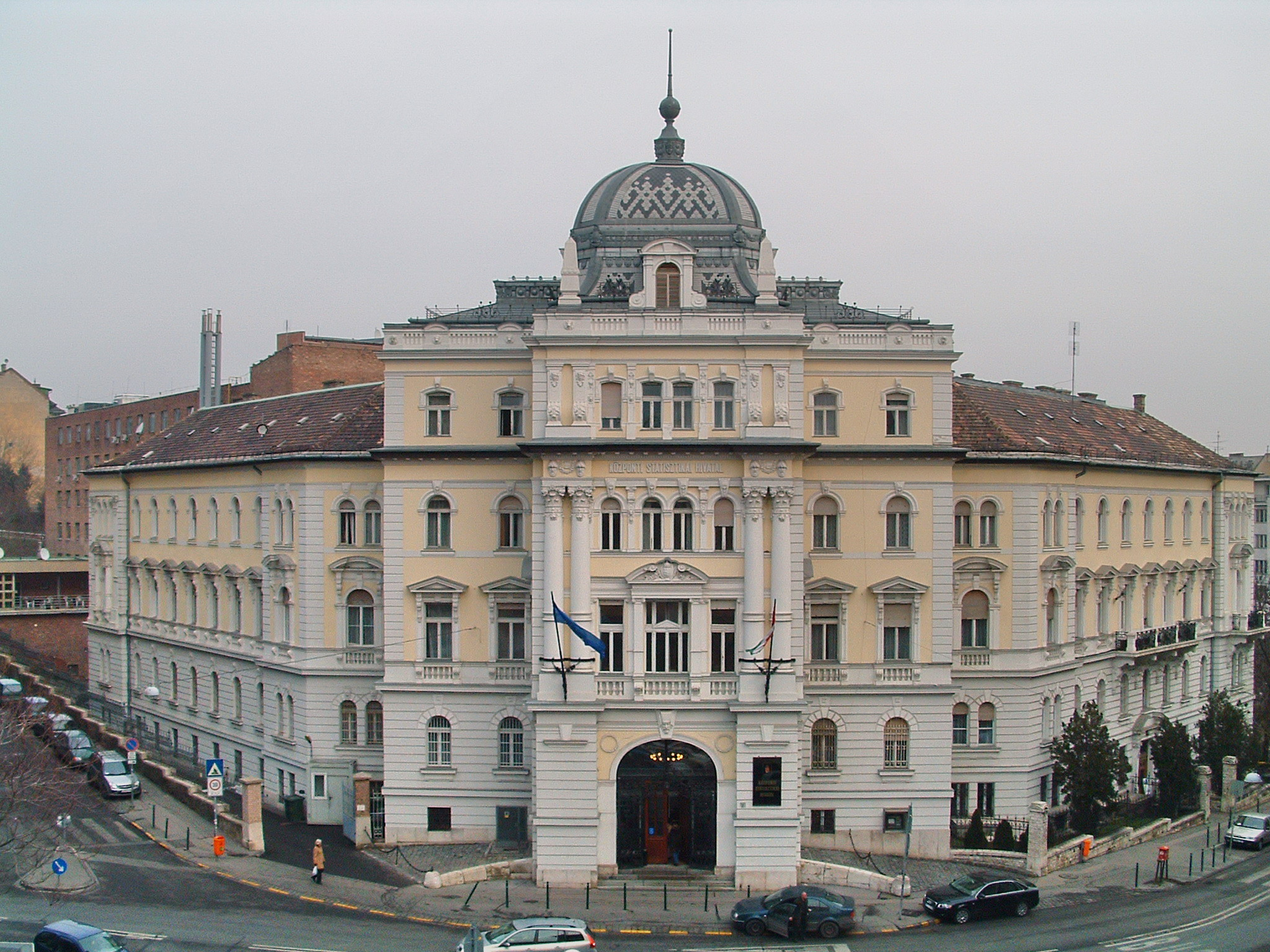 Main building of the Hungarian Central Statistical Office